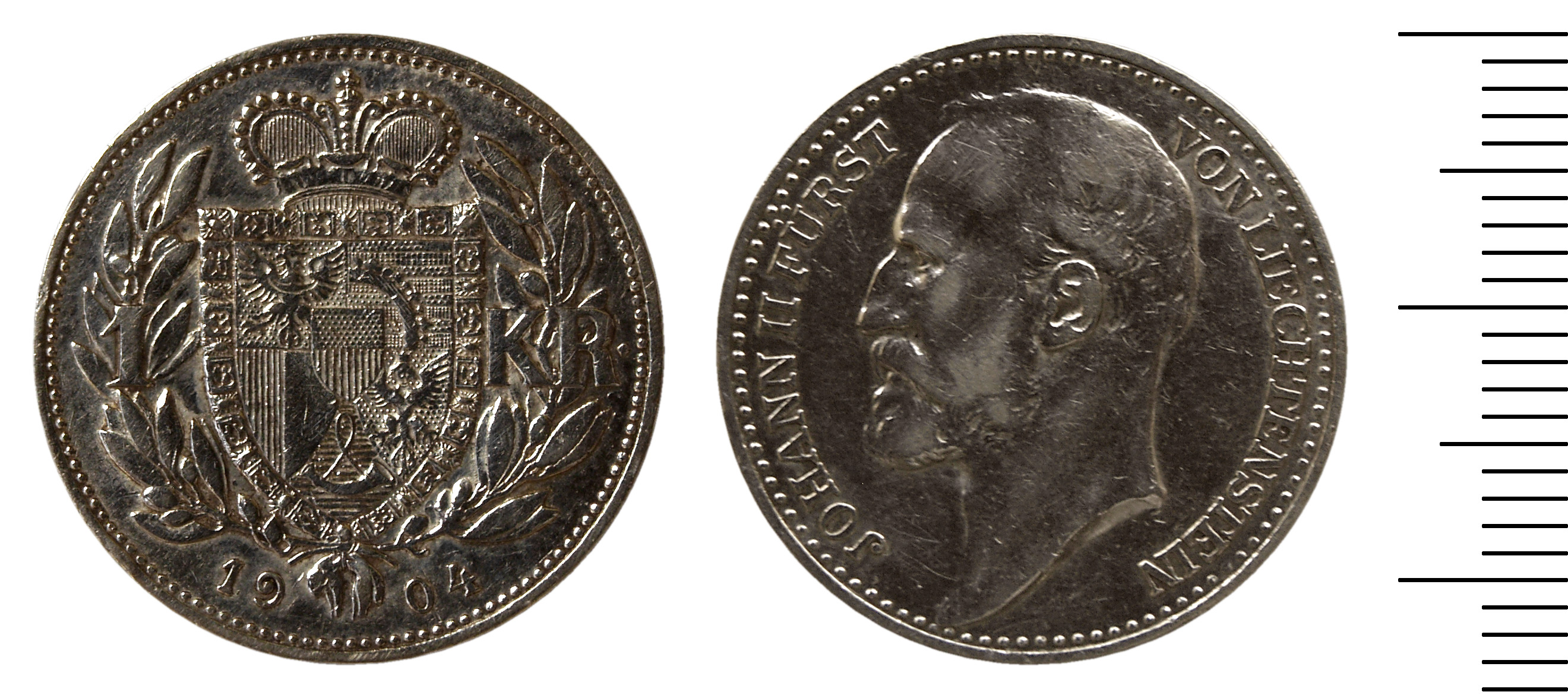 Silver Liechtenstein 1 Krone 1904 (scale in milimetres)